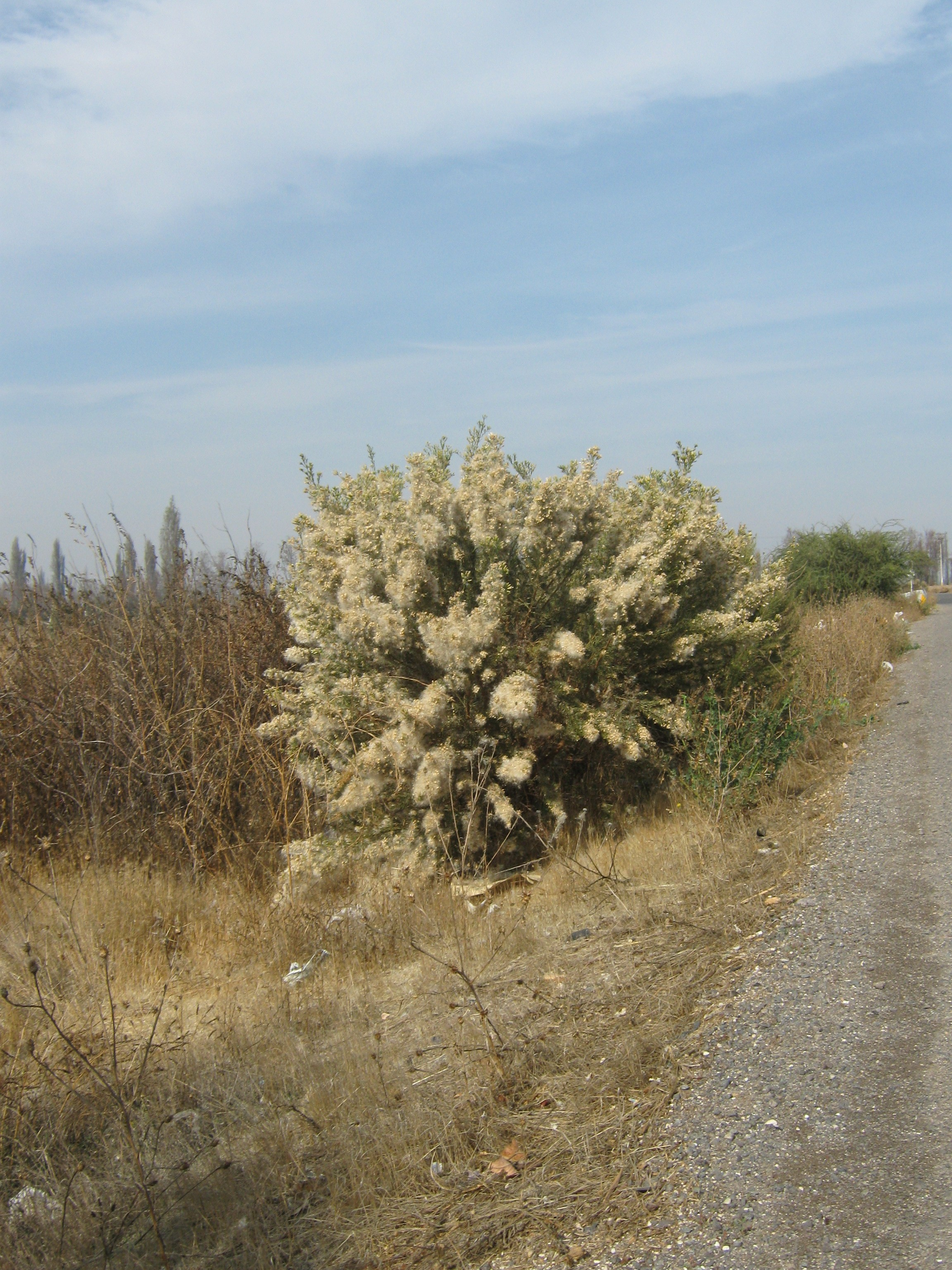 Baccharis linearis Pudahuel, Santiago